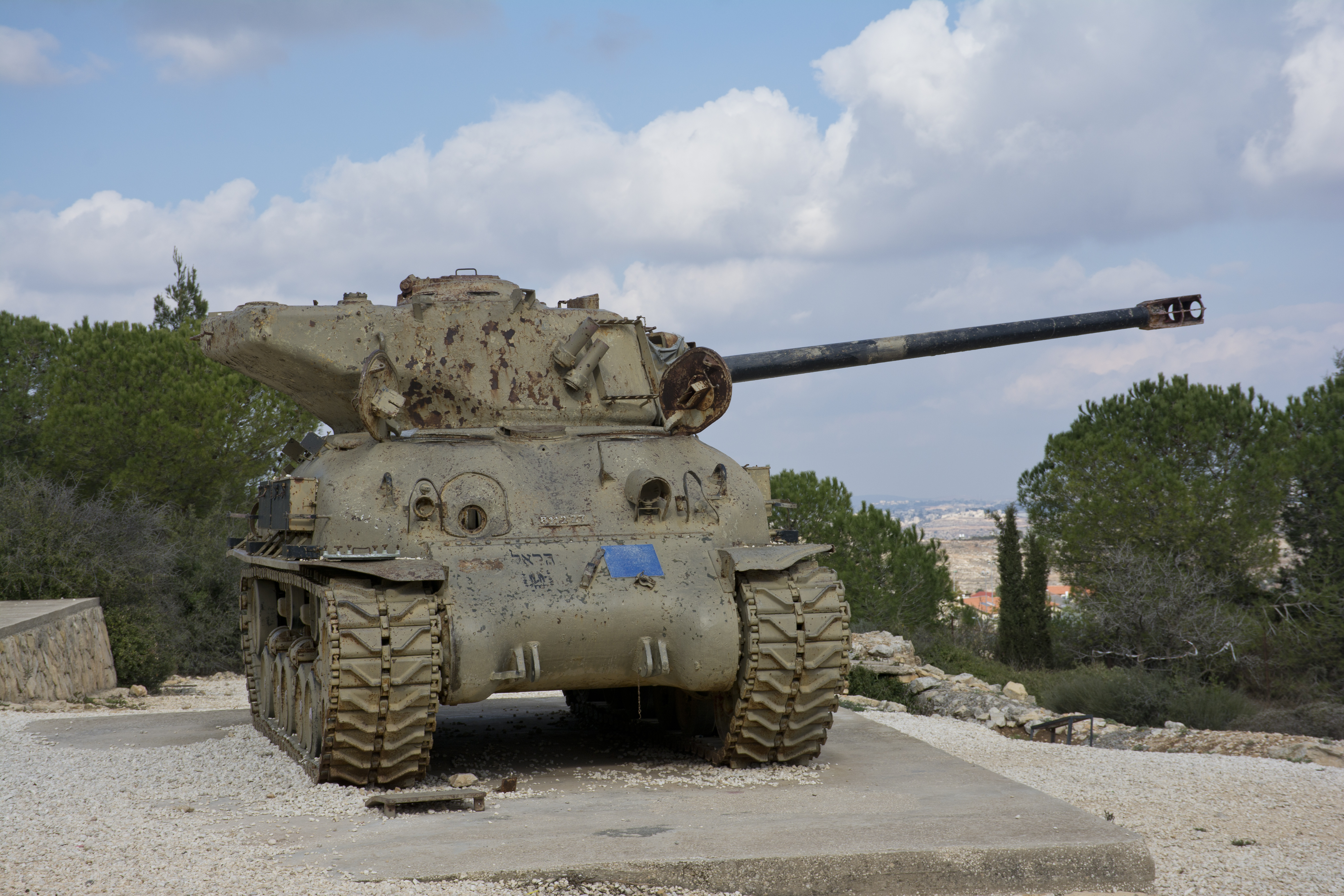 M51 Super Sherman,Harel Brigade Monument, Har Adar, Israel